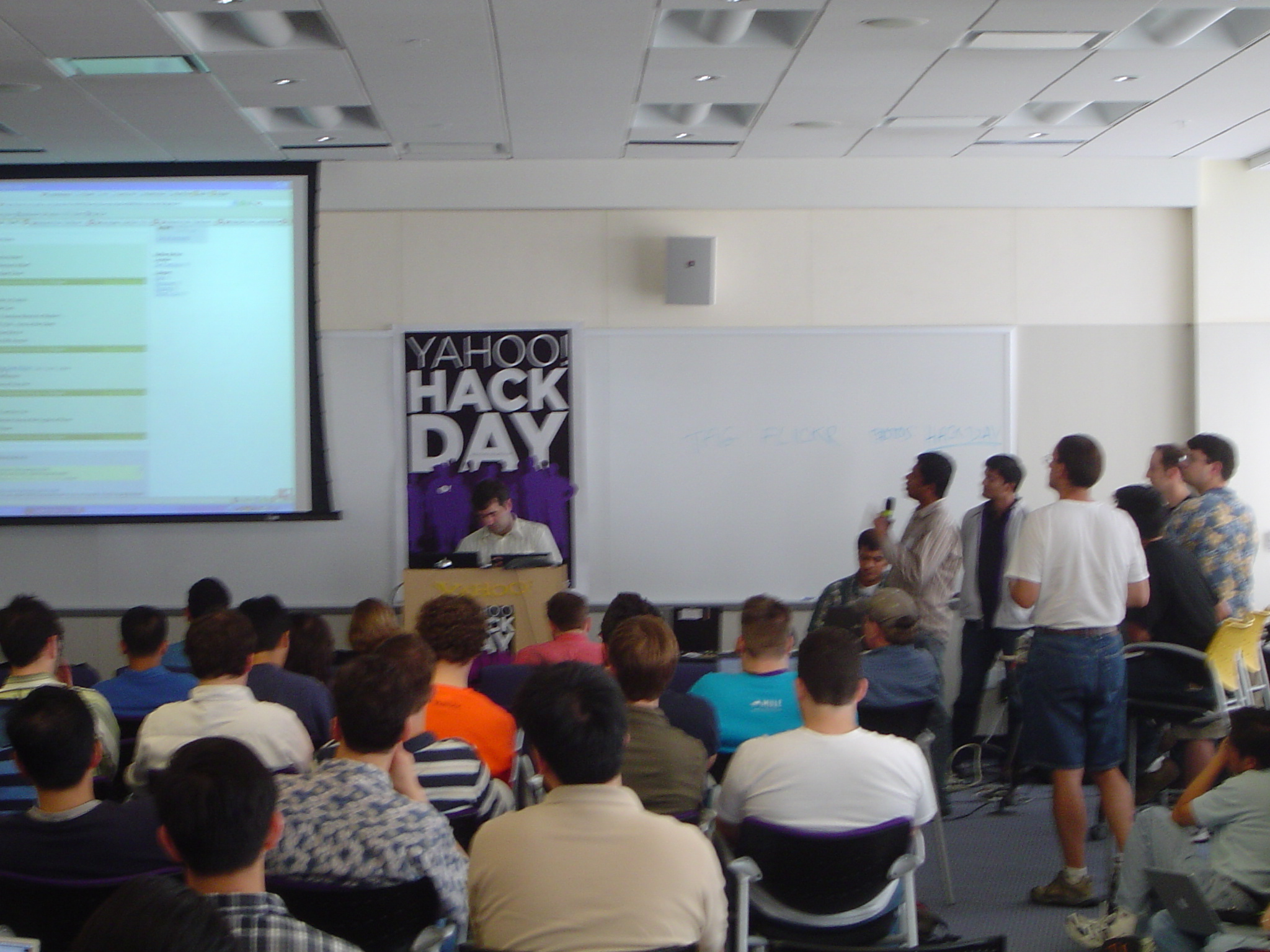 Yahoo! Internal Hack Day event at Yahoo! HQ. Some of my coworkers are presenting their hack.